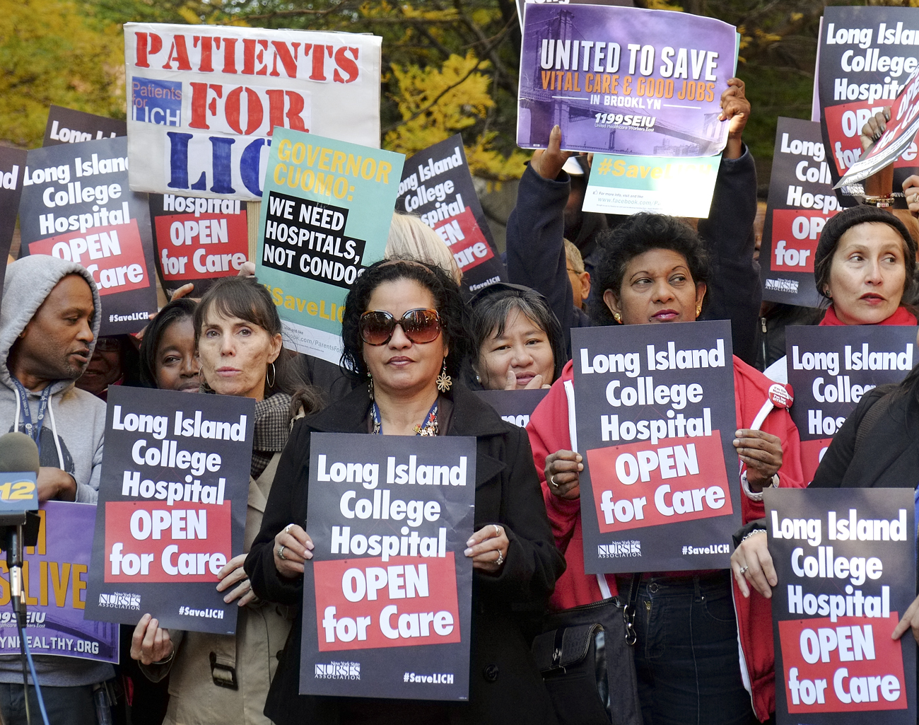 10.28.13 | Cobble Hill, Brooklyn Photo Credit: William Alatriste